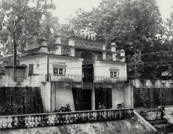 Adoor sree patha sarathy temple